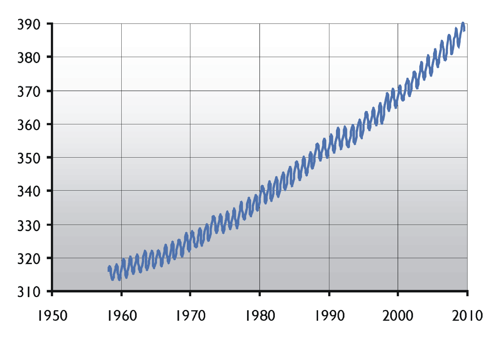 A graph depicting CO2 levels from 1958 to 2009 as measured at Mauna Loa, Hawaii. Year is on the x-axis, atmospheric carbon dioxide concentration (in parts per million) is on the y-axis. The cause for the yearly rise and fall is the annual cycle of plant respiration. The cause of the increasing trend is the anthropogenic release of CO2, mainly due to the use of fossil energy sources.